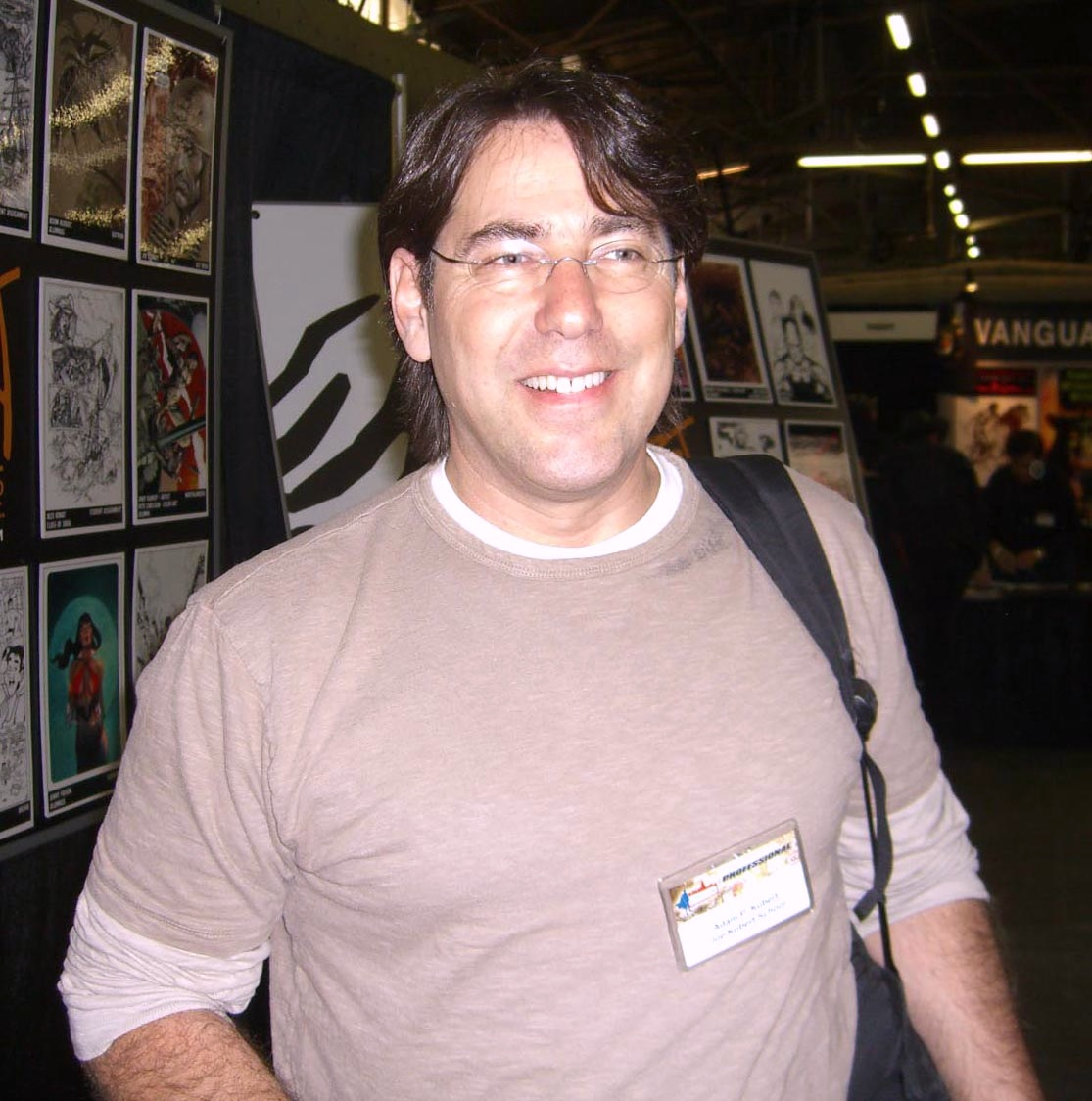 Comic book creator Adam Kubert at the Big Apple Convention in Manhattan. This photo was created by Luigi Novi. It is not in the public domain, and use of this file outside of the licensing terms is a copyright violation.